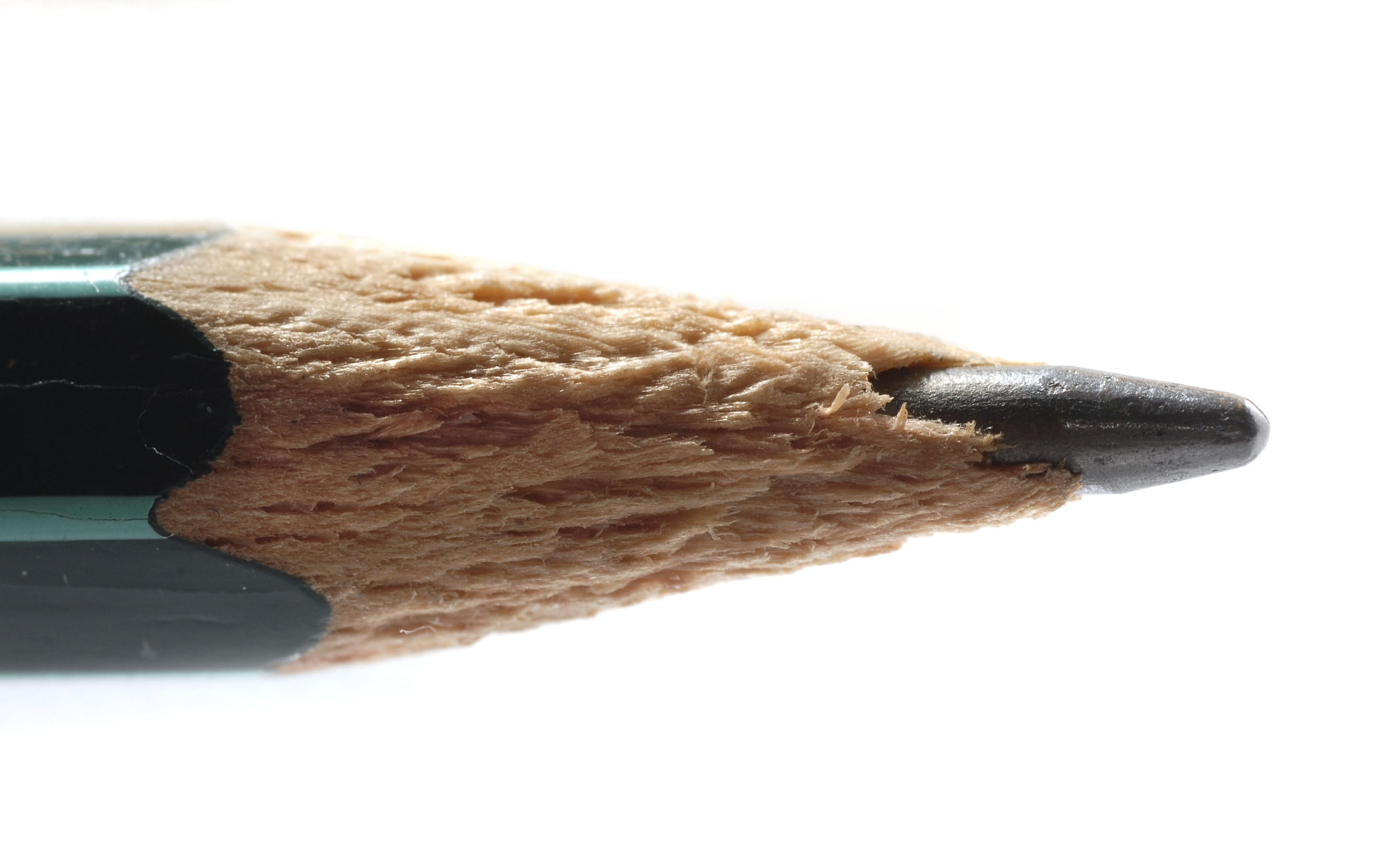 Macro of a lead pencil